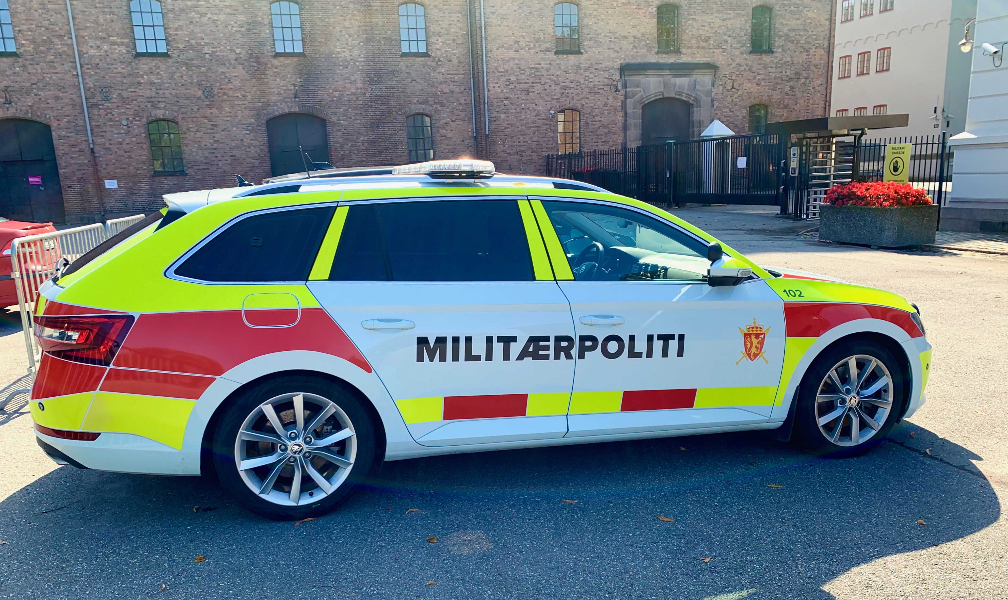 Norwegian military police vehicle at Fort Akershus, Oslo